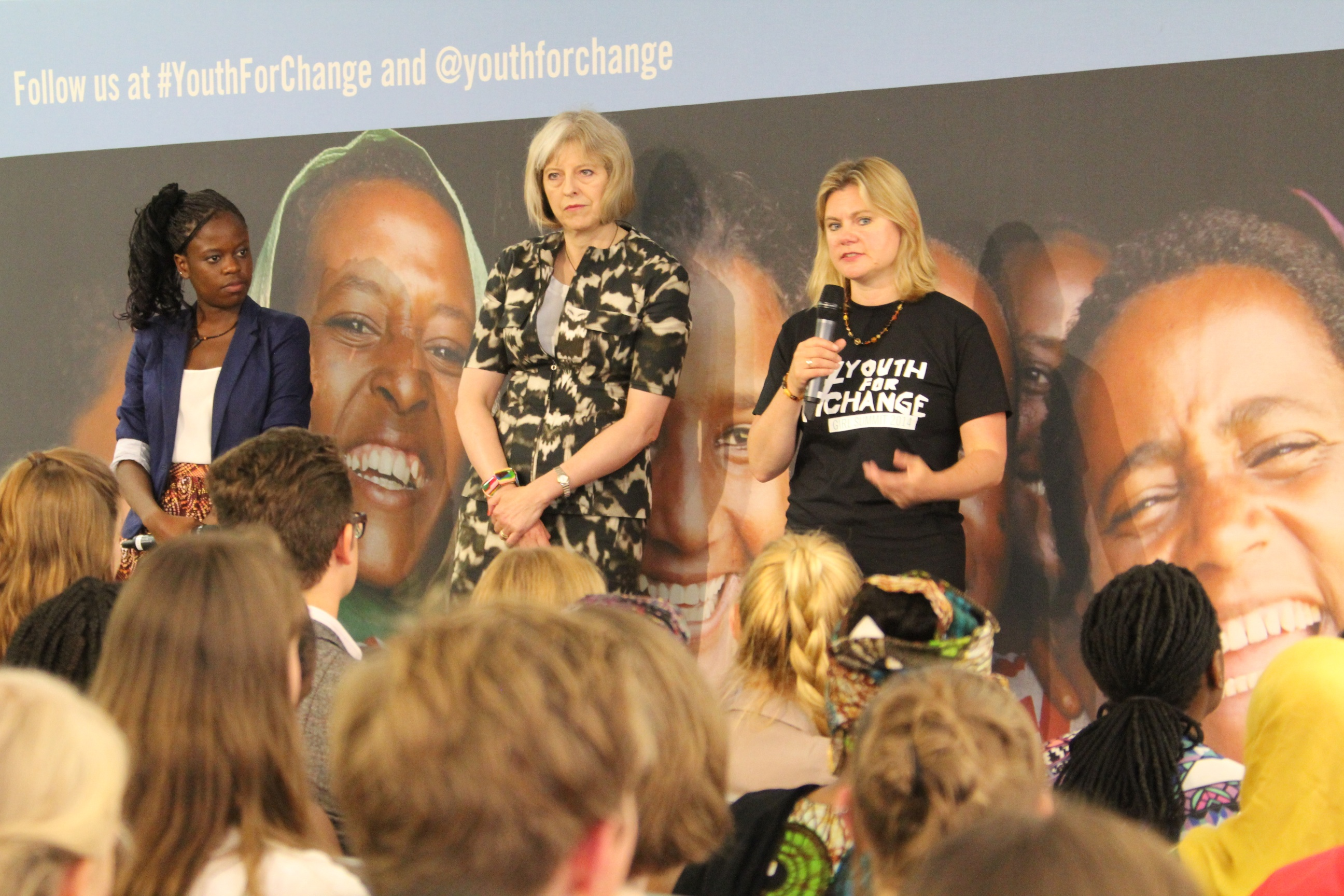 Youth For Change was an event for youth, by youth to help take action on girls' rights. It was a one-day conference that took place on Saturday 19th July 2014, at the headquarters of the Department For International Development in London. For more information see: bit.ly/youthforchange Picture: Russell Watkins/Department for International Development. Available for free editorial use under Crown Copyright/Open Government License/Creative Commons - Attribution